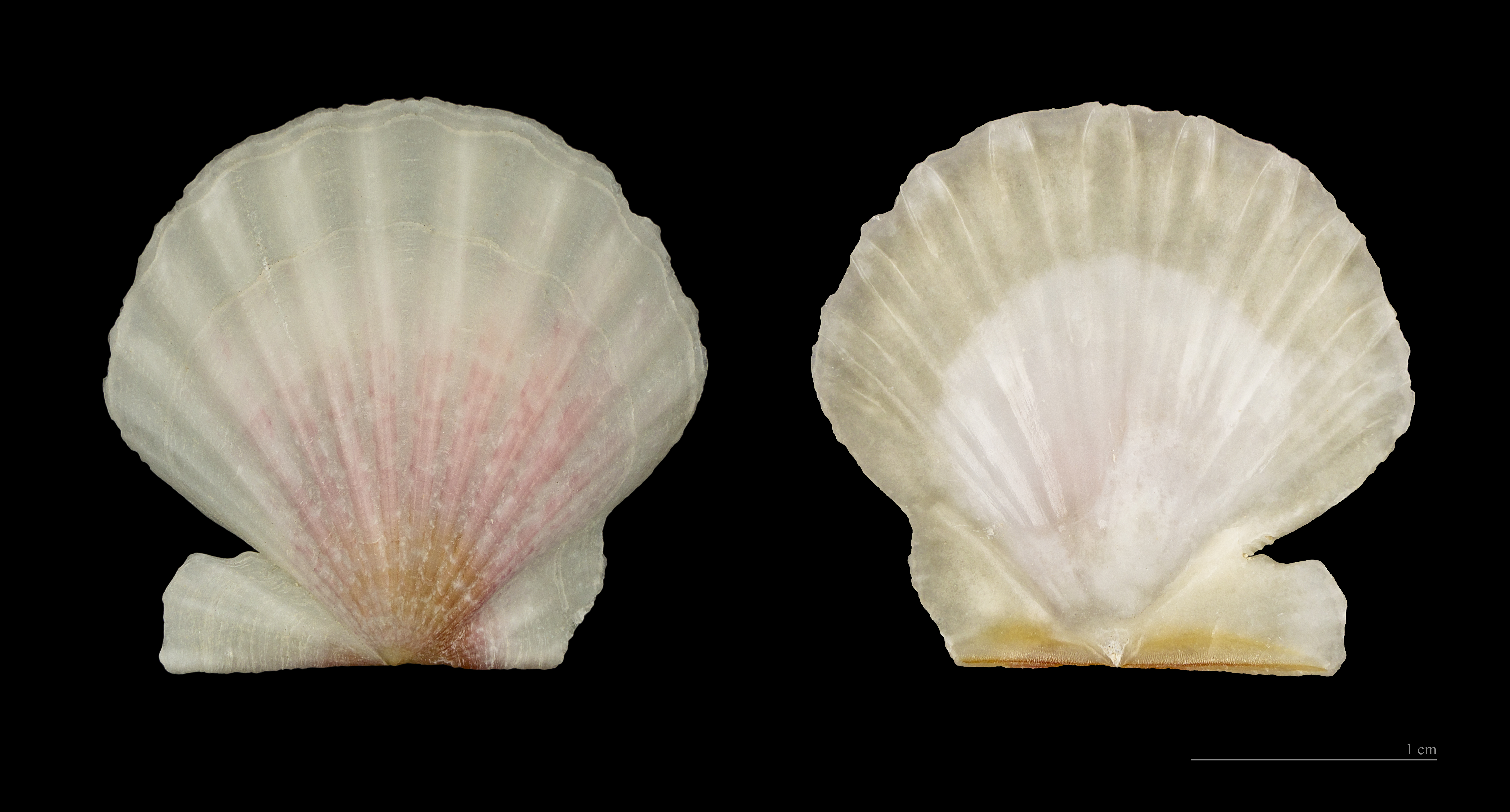 Flexopecten glaber ponticus - 2 views of the same specimen. Former collection of George Chernilevsky.